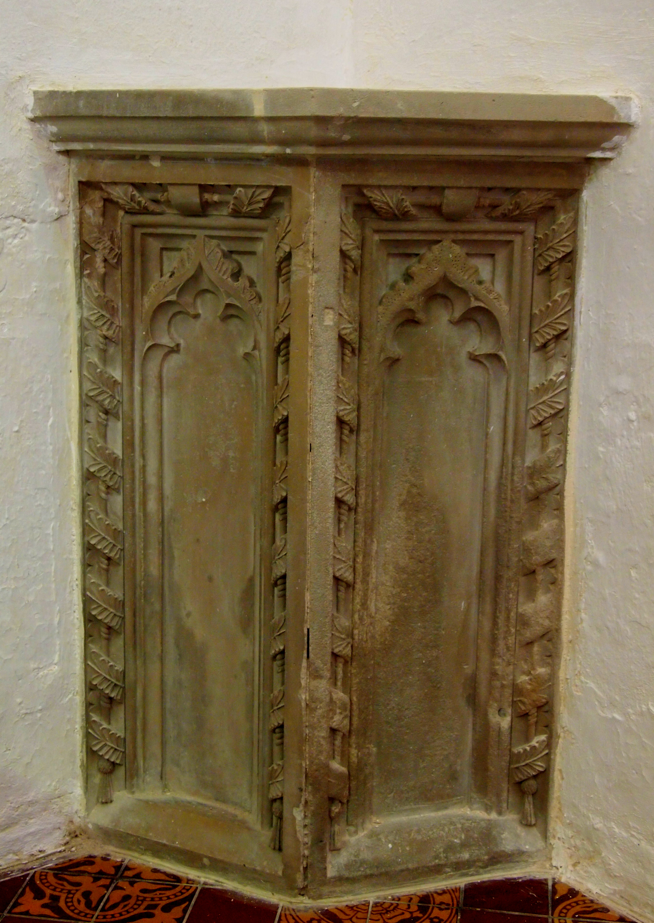 Credence table in St Mabyn church possibly part of St Mabena's tomb